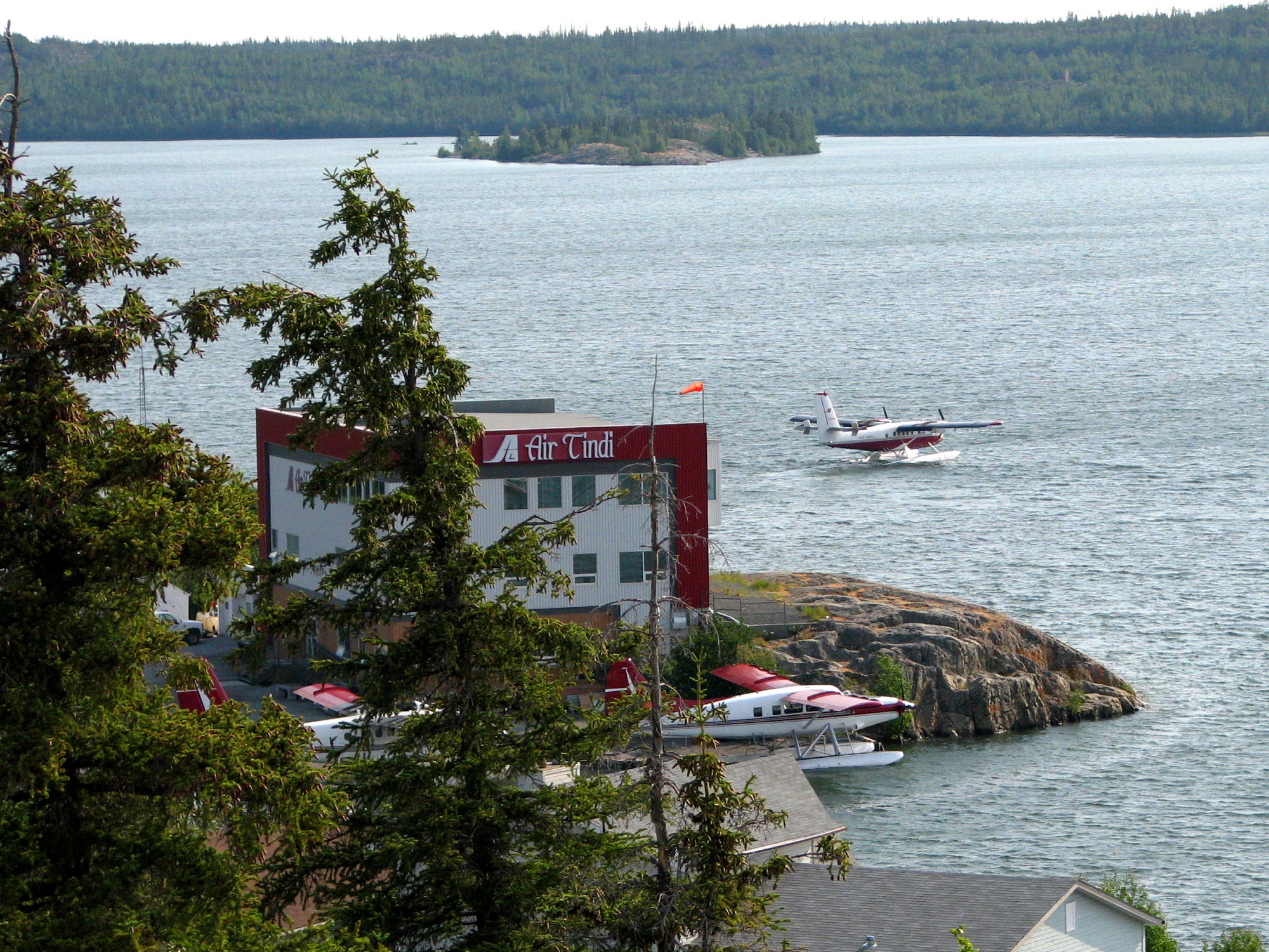 Yellowknife Water Aerodrome, Northwest Territories, Canada. Air Tindi is a Yellowknife-based airline that flies only to other cities in the Territories.